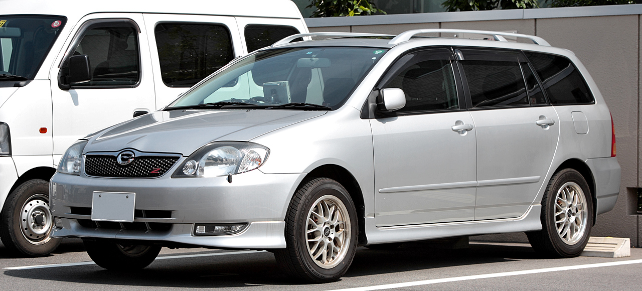 Toyota Corolla Fielder 1.8 Z Aero-turing ( ZZE123G, 2000-08 ~ 2004-03 )